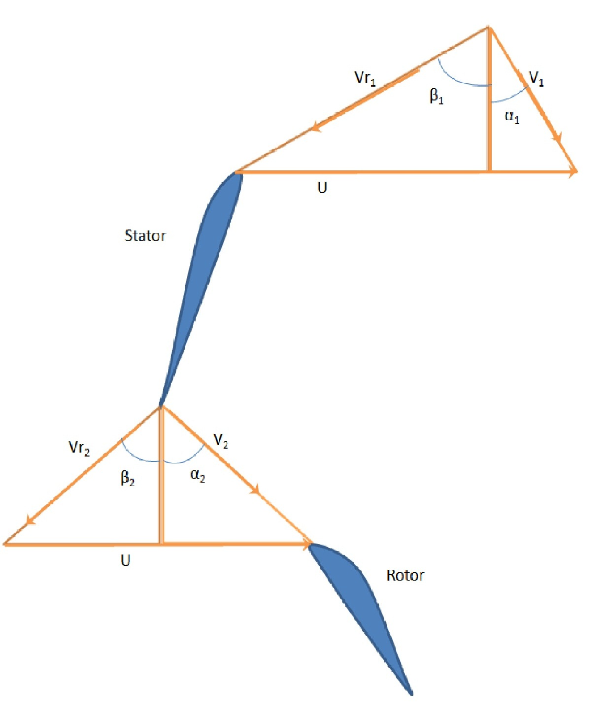 The velocity triangle relates the inlet and outlet fluid velocities for the case when degree of reaction is more than half.